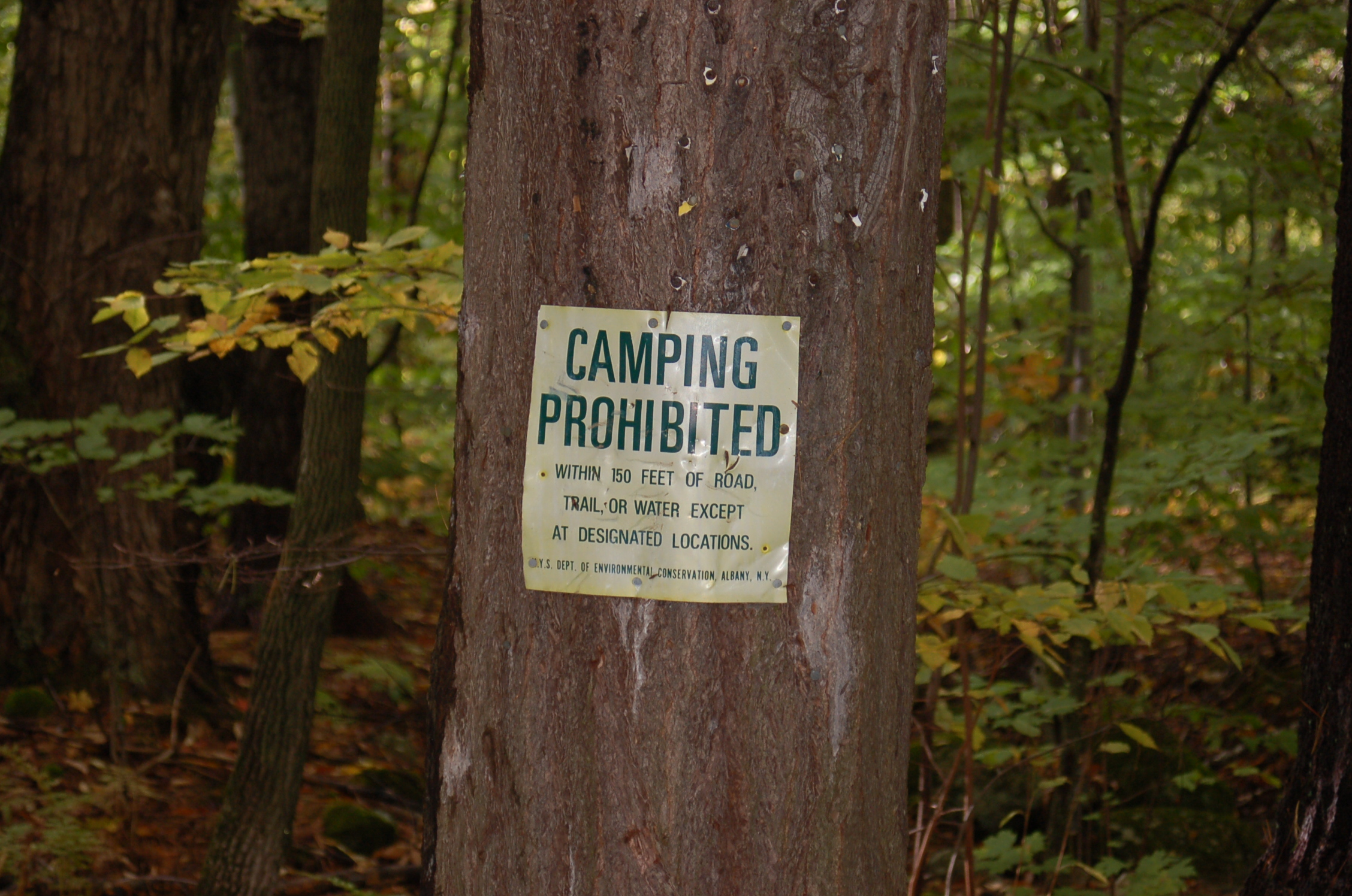 No camping sign, Five Mile Mt, taken by Geotek Sept 06